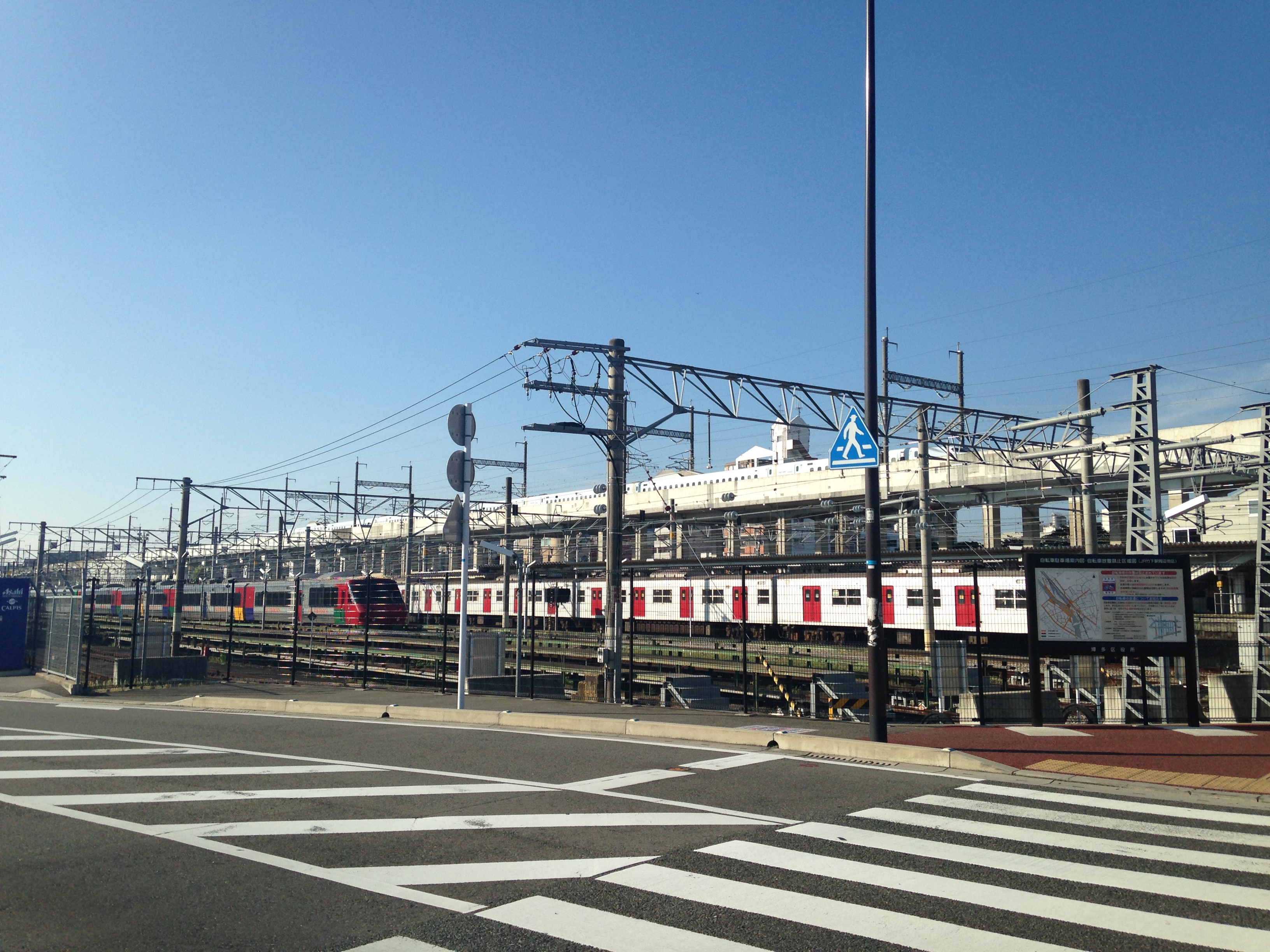 Hakata Train Drivers' Depot (Hakata-untenku) and Hakata-Minami Line